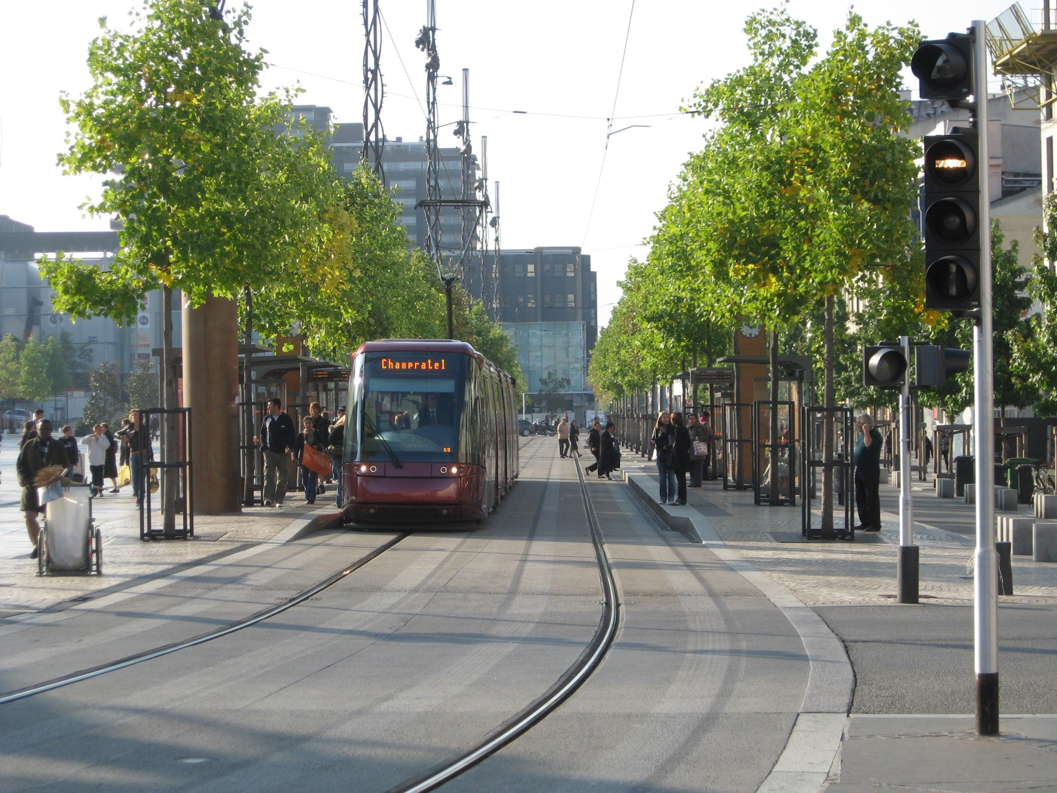 Tramway on rubber wheels (so-called “Translohr”) in Clermont-Ferrand